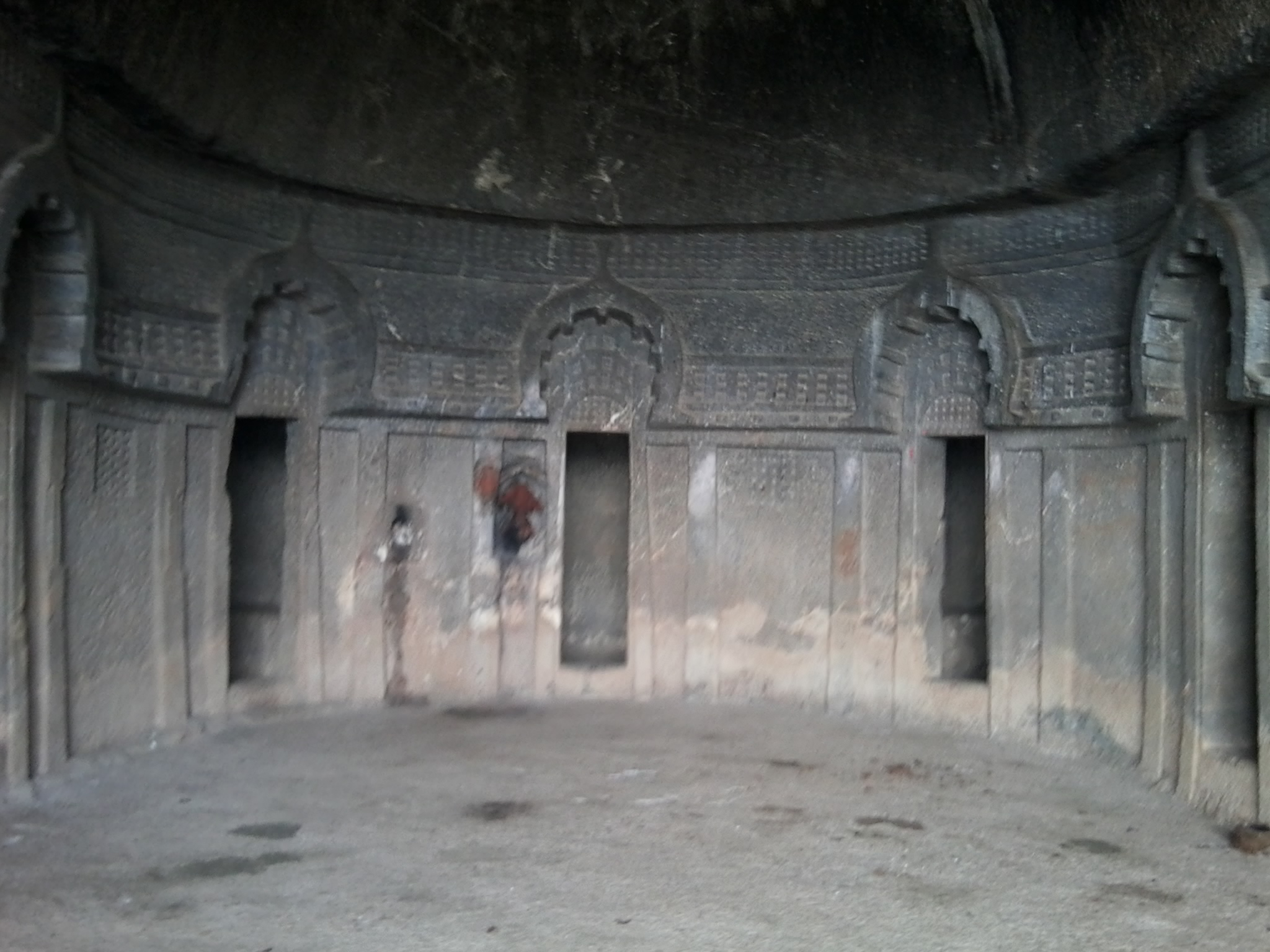 picture of the vihara lobby of the Bedse Caves